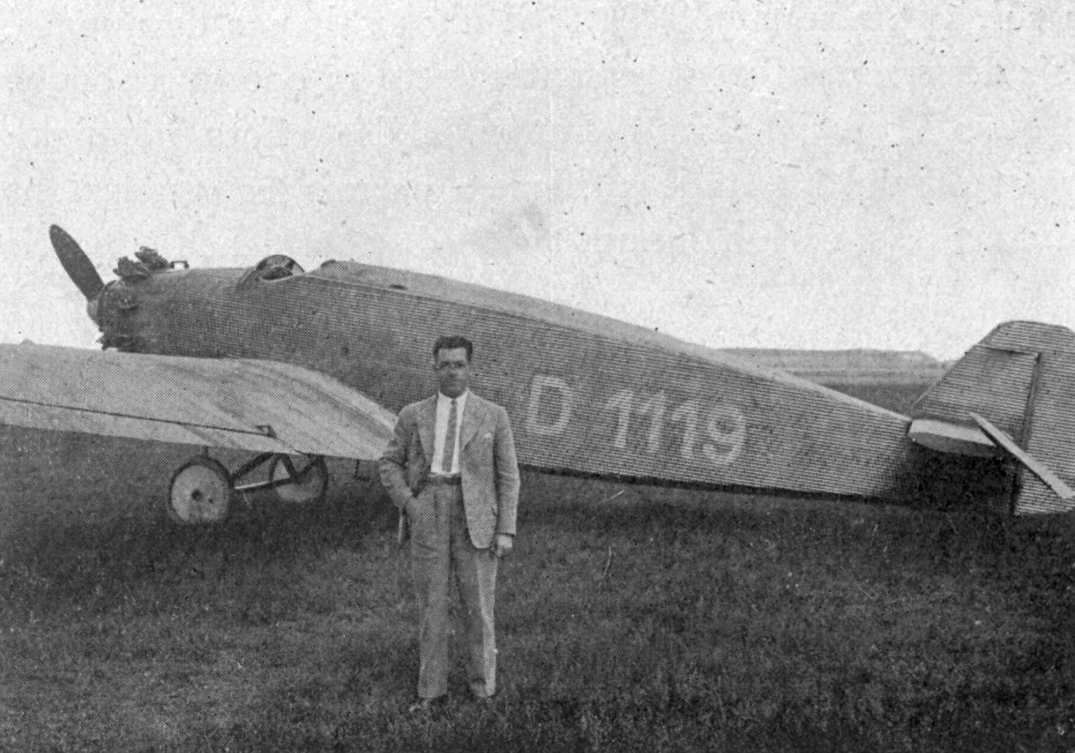 Willi Neuenhofen and the Junkers W 34 be/b3e he flew to a world altitude record on May 26, 1929. Photo from L'Aéronautique July,1929